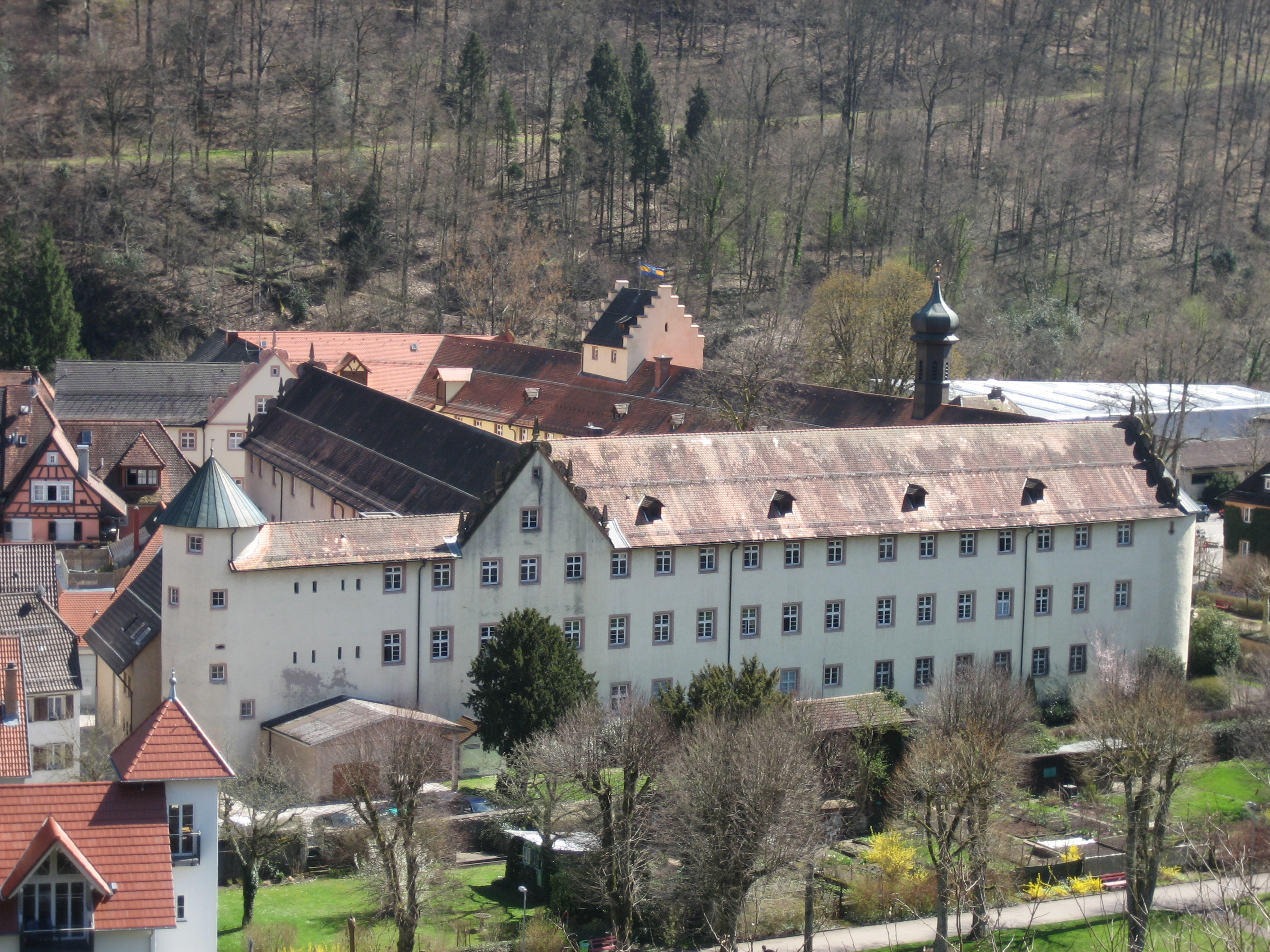 Wolfach caslte in Wolfach in the Schwarzwald region, Germany, Europe